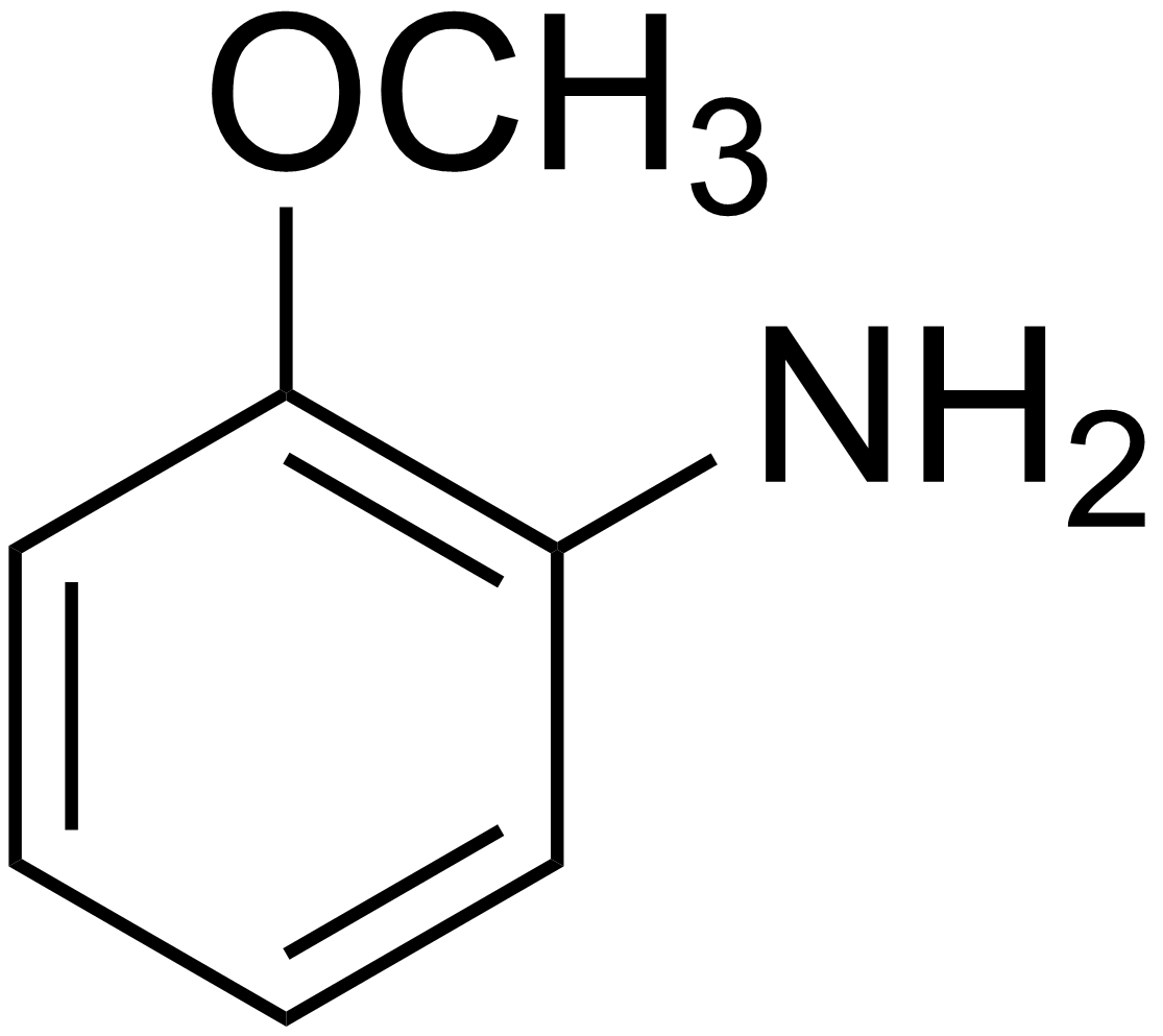 Chemical structure of 2-anisidine created with ChemDraw